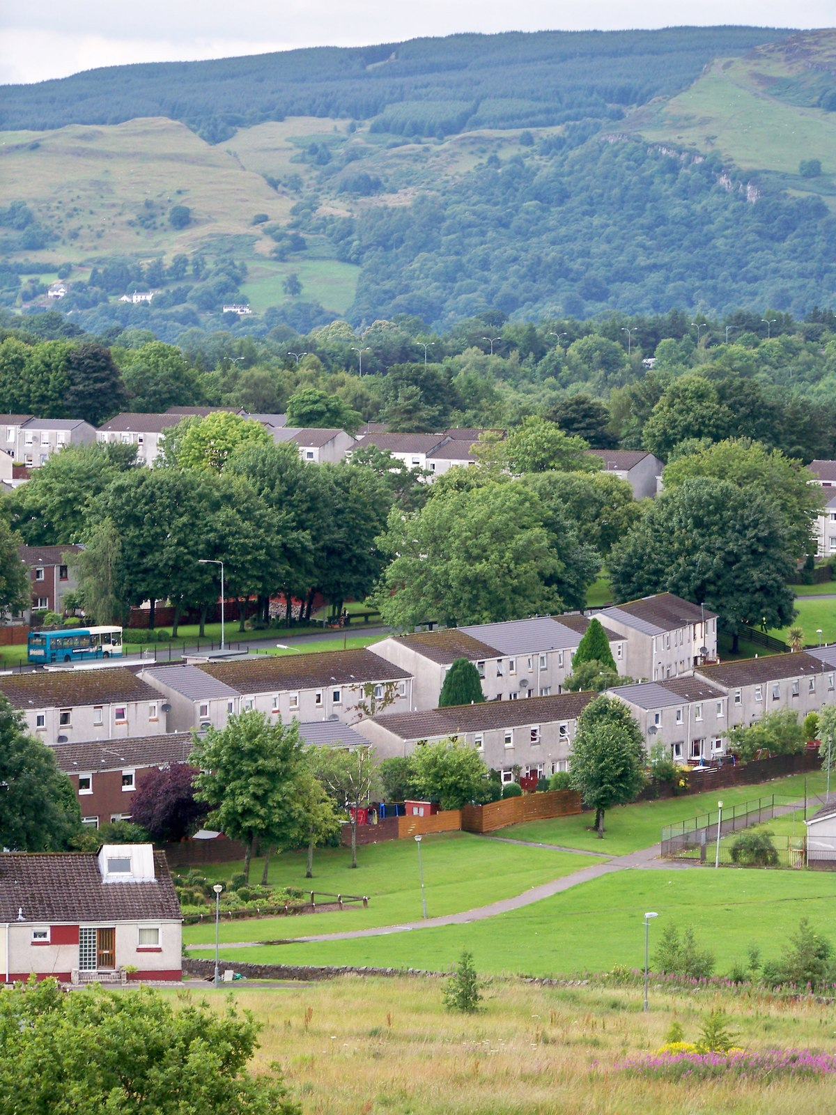 Allison Avenue, Bargarran, Erskine, Data from Geograph: Description: A view of terraced housing in Allison Avenue. In the foreground, an end terrace split-level house at the end of Holms Crescent can be noted. An Arriva bus travels down Bargarran Road in mid-left of shot. ICBM: 55.906616512111, -4.467789726679 Location: (about 1 km from) near to Erskine, Renfrewshire, Great Britain.